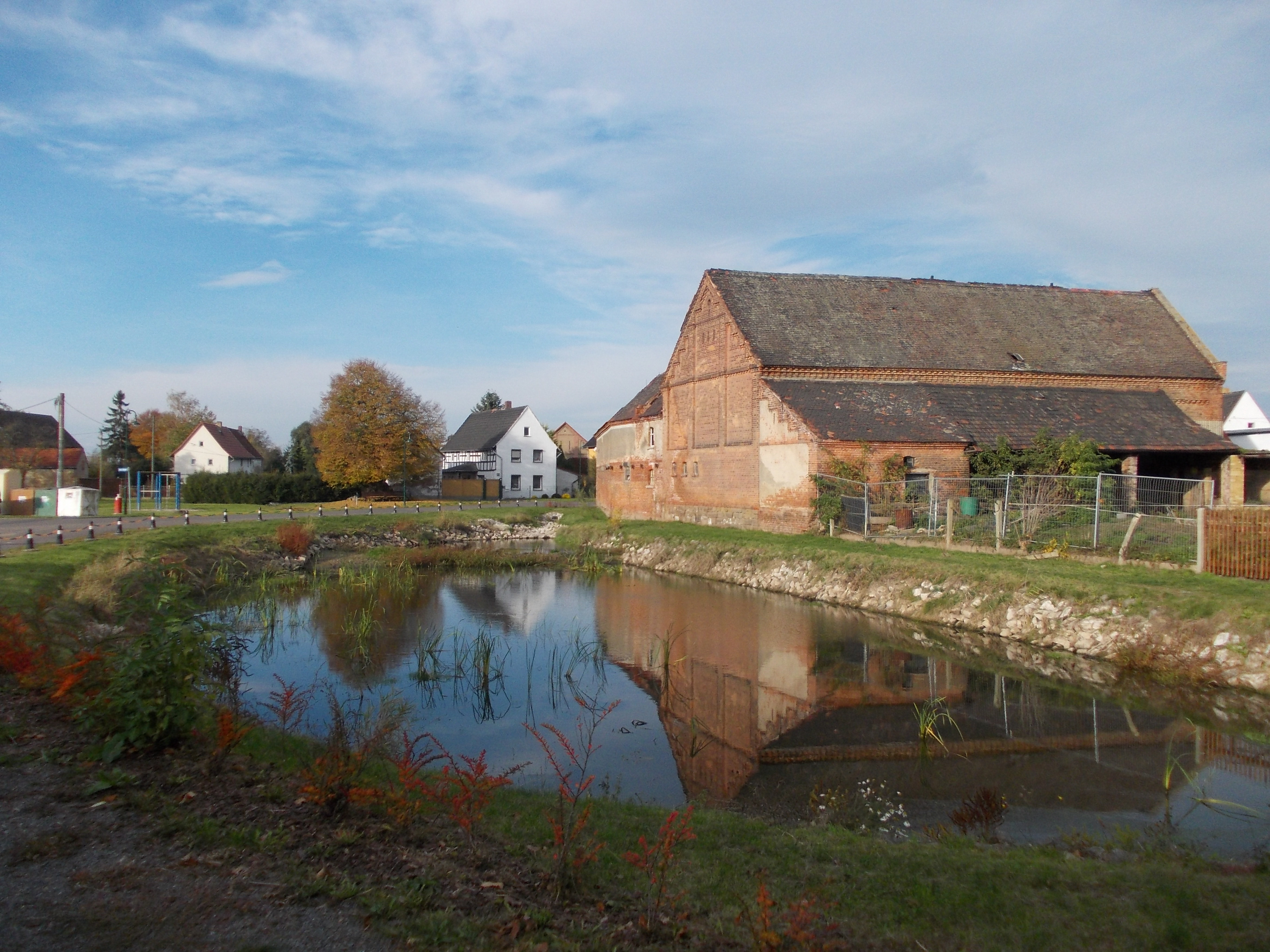 Pond in Tellschütz (Zwenkau, Leipzig district, Saxony)